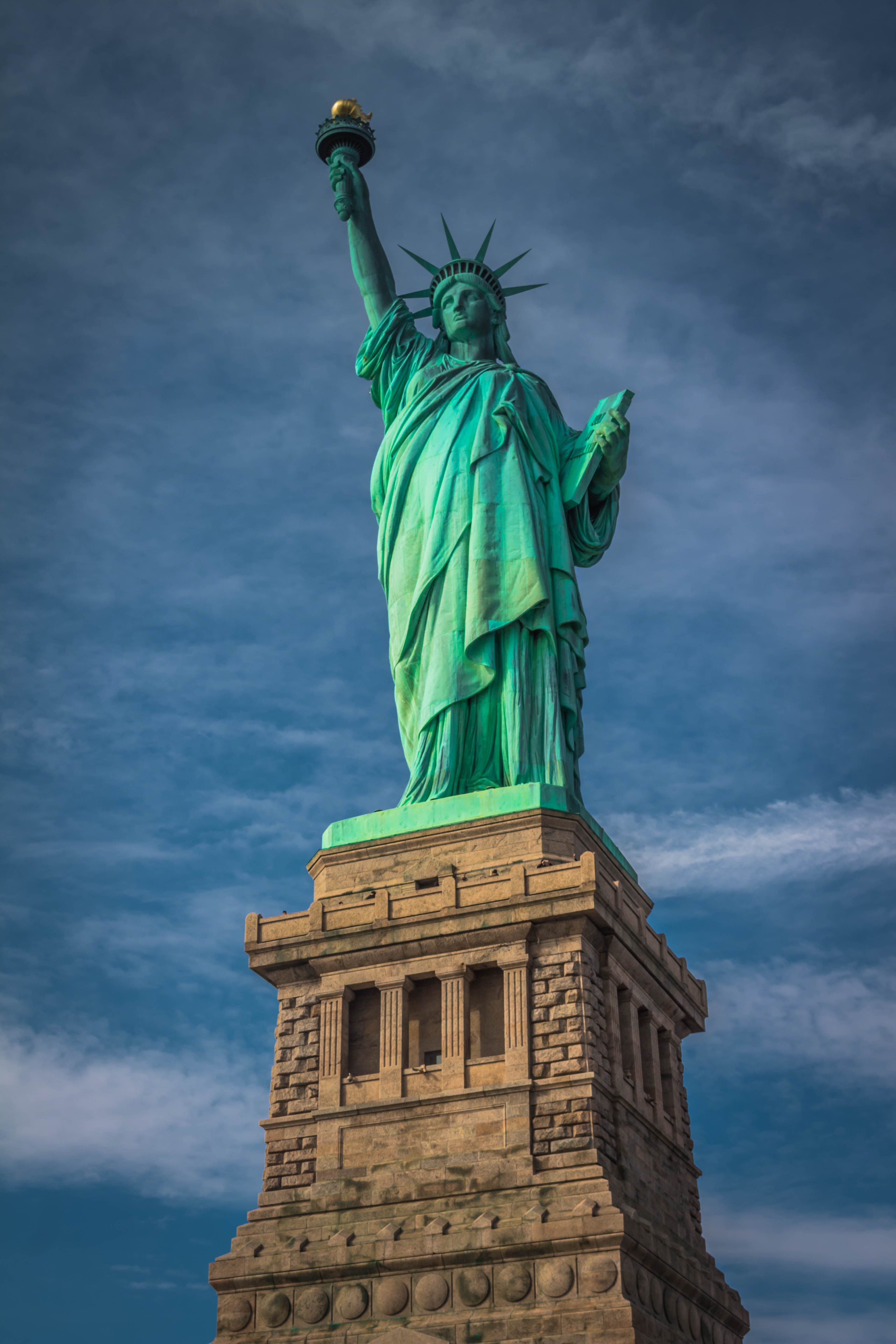 These are my own taken and edited photos from my holiday to New York.